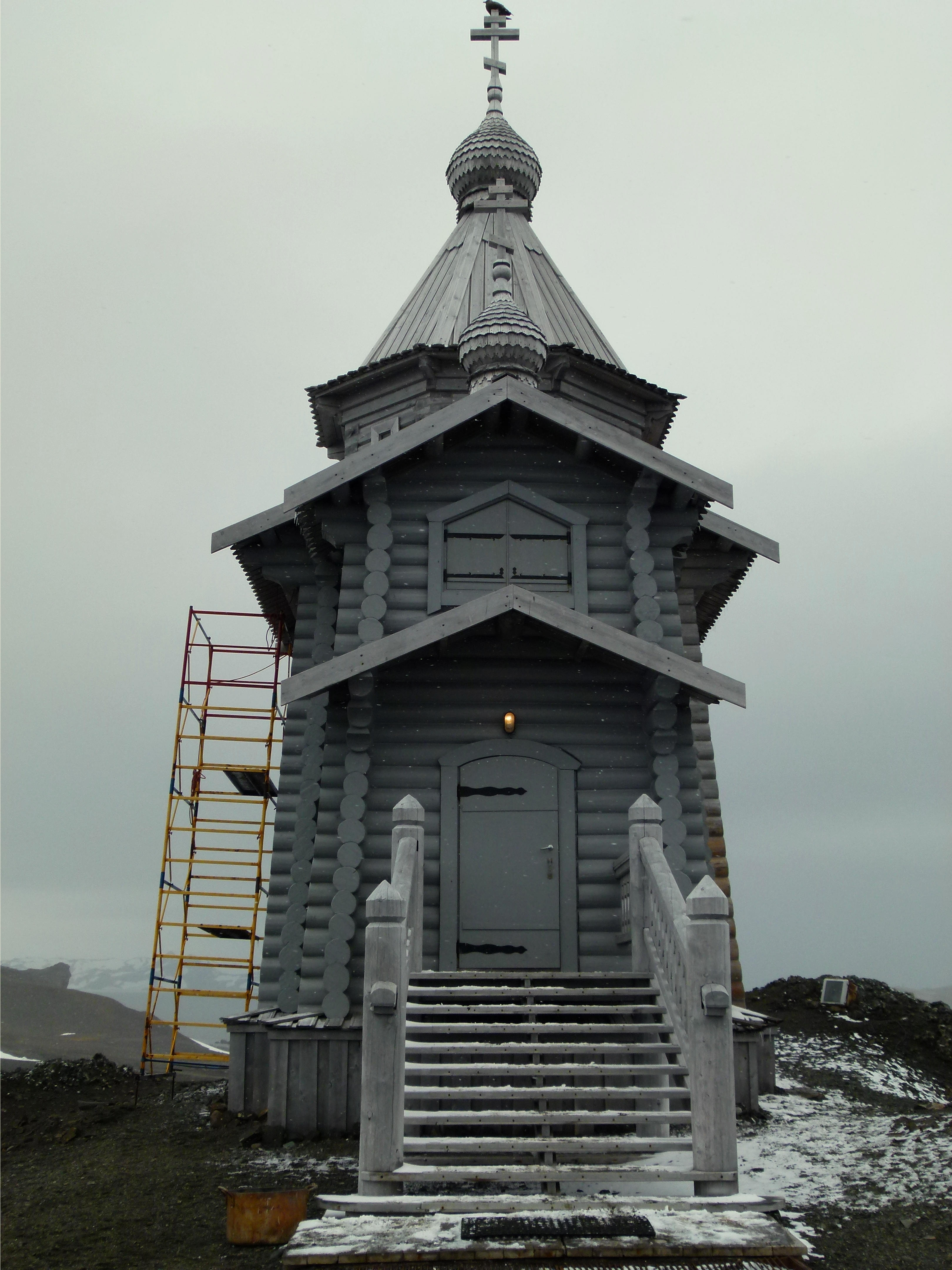 St. Trinity Church at the Russian base Bellingshausen on King George Island in the South Shetland Islands, Antarctica.